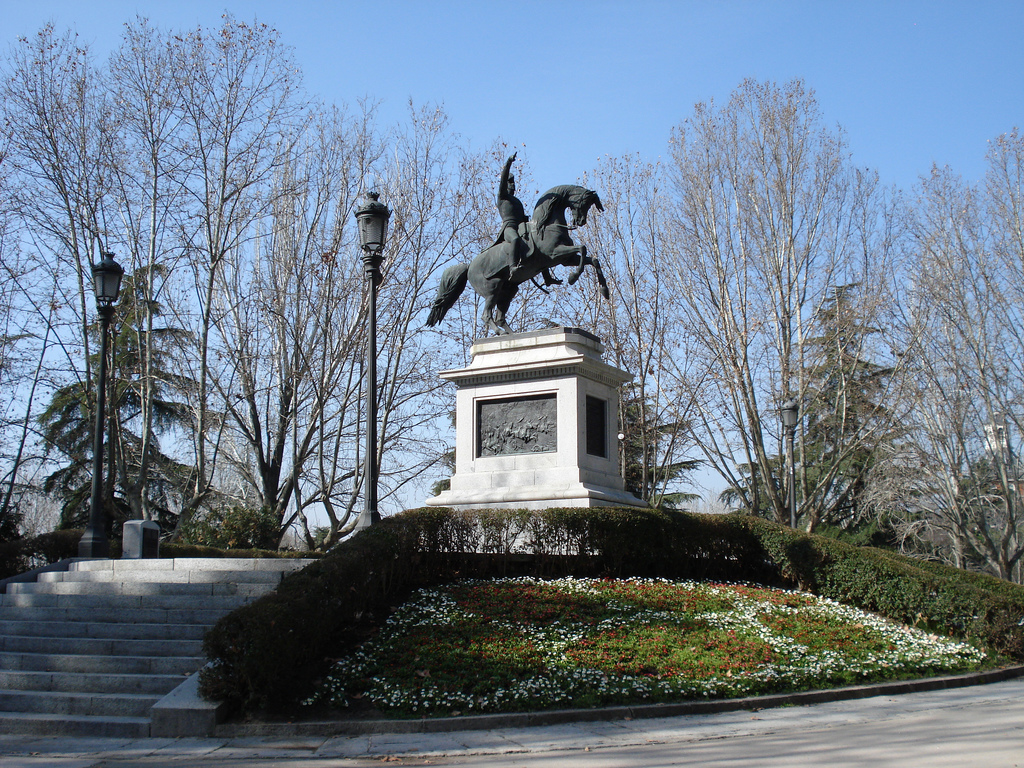 Monument to José de San Martín in the Parque del Oeste (a park) in Madrid (Spain), inaugurated on May 25, 1961. The bronze equestrian statue is a replica of the one at the Plaza San Martín (square) in Buenos Aires (Argentina), a work by Louis-Joseph Daumas from 1862.